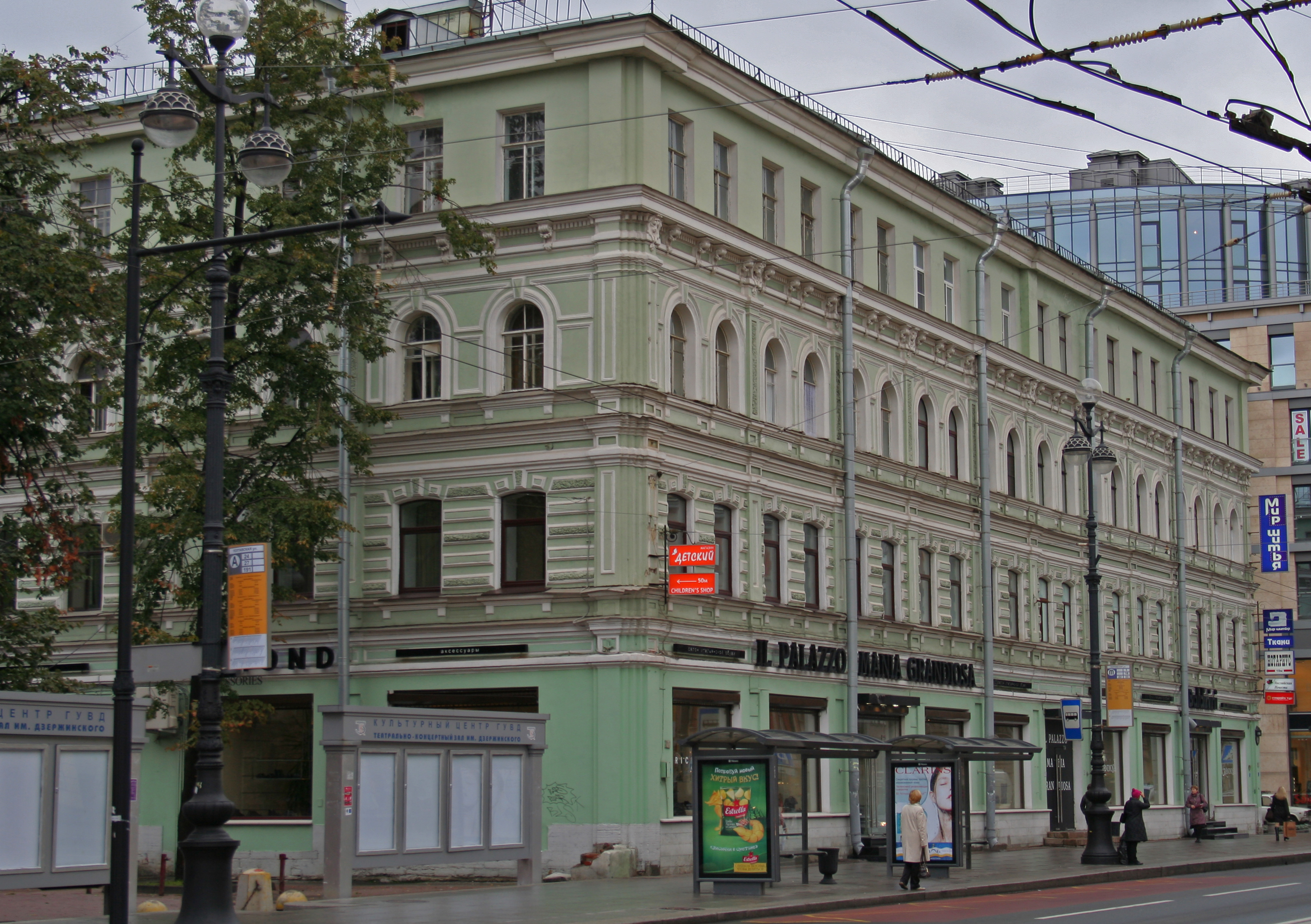 The Nevsky Prospekt in Saint Petersburg. House number 150.